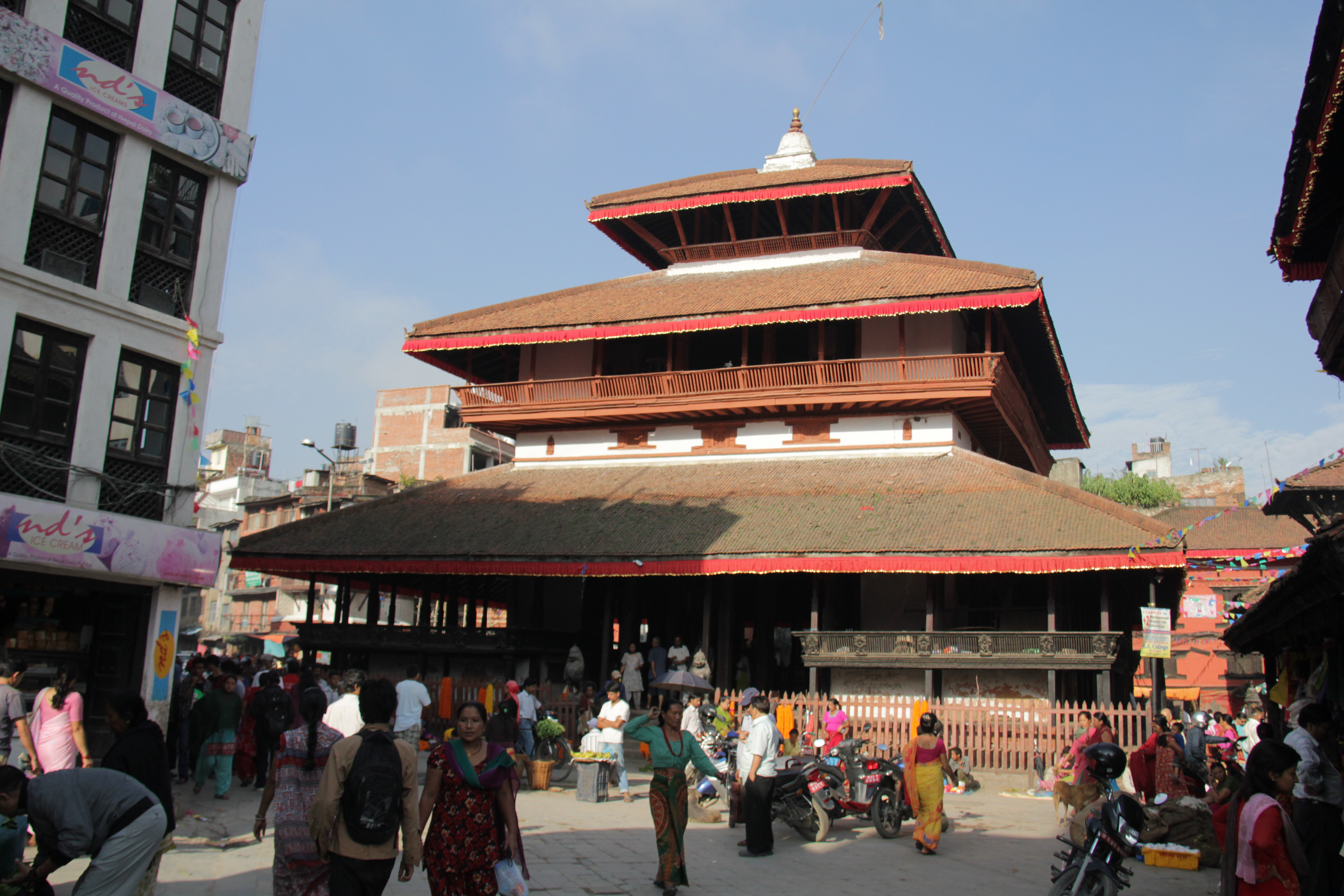 Kasthamandap